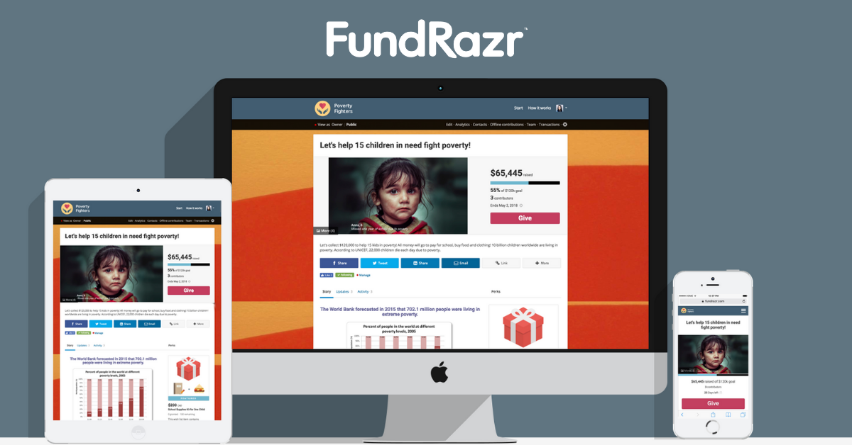 FundRazr's official showcase picture